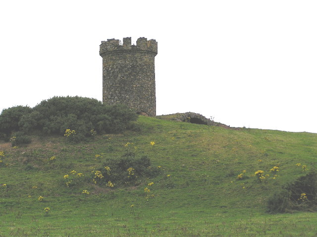 Logan Windmill 2. Another view of Logan Windmill showing the curious vaulted structure at its base